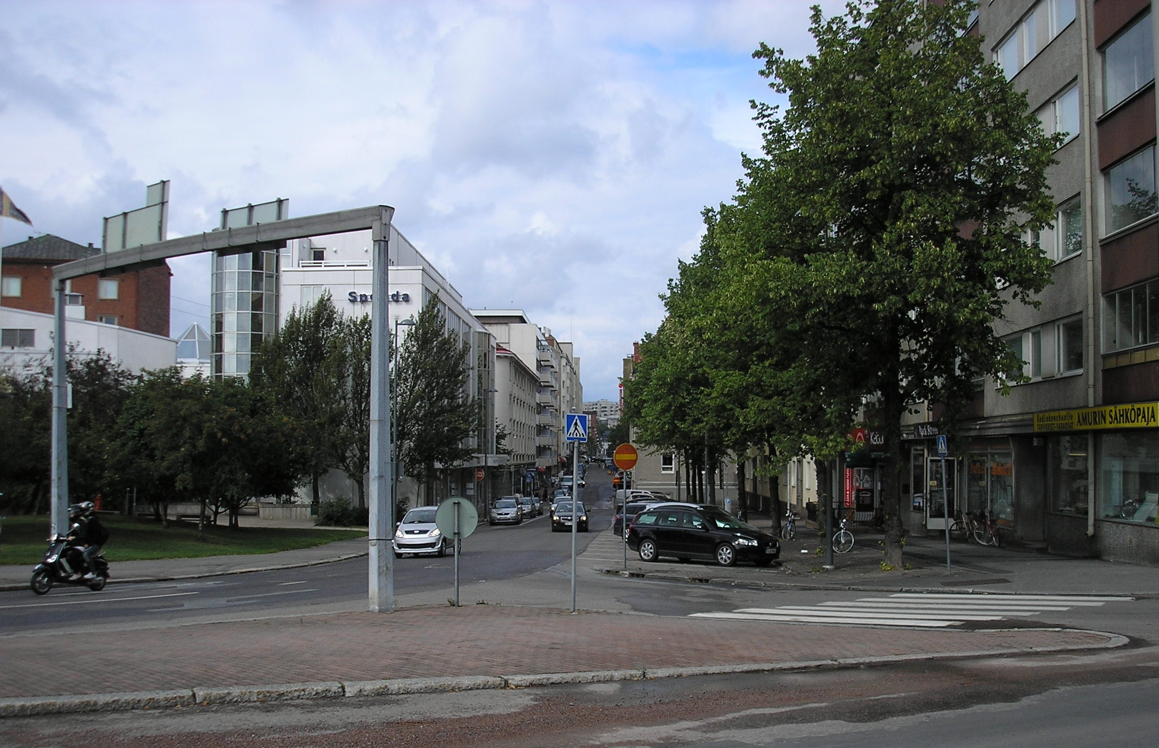 Aleksanterinkatu, Tampere. A view from Sorinaukio plaza, the south end of the street.